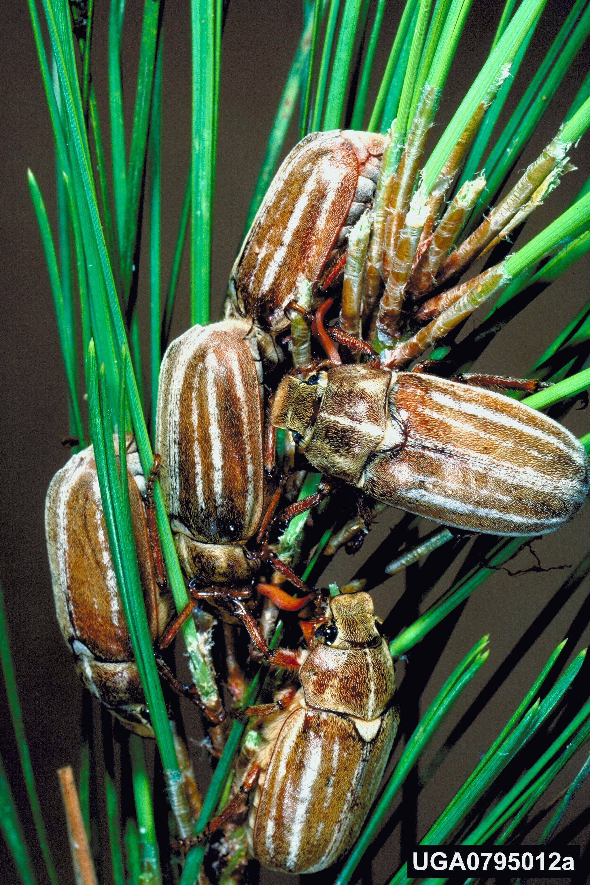 Beetle species Pollyphylla occidentalis